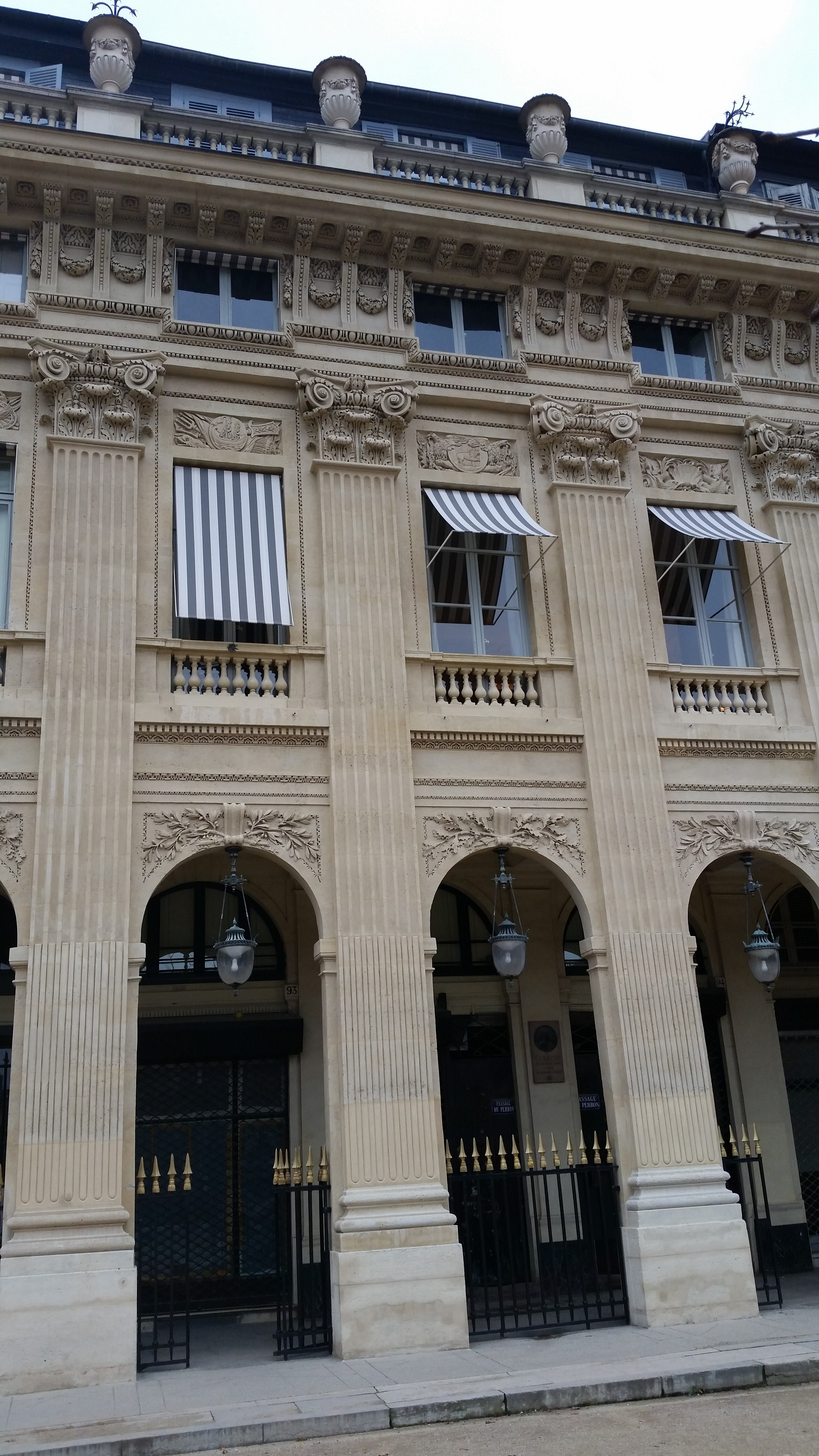 Close up view of Colette's apartment seen from the Jardin du Palais Royal